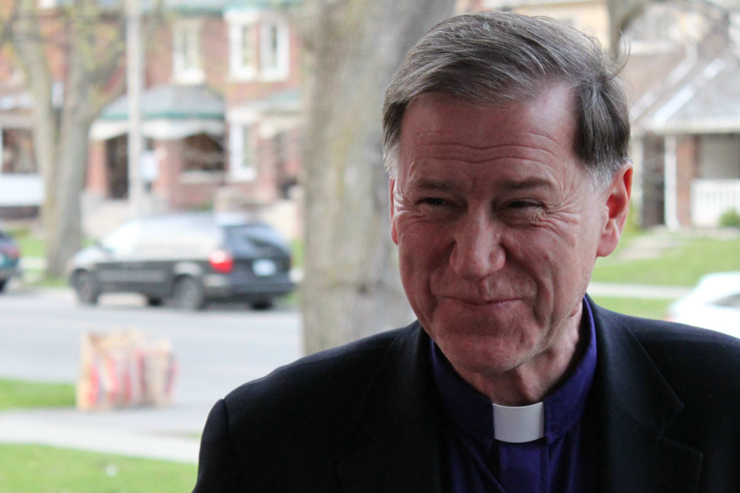 The Most Reverend Fred Hiltz, Primate of the Anglican Church of Canada, at Holy Cross Priory, Toronto